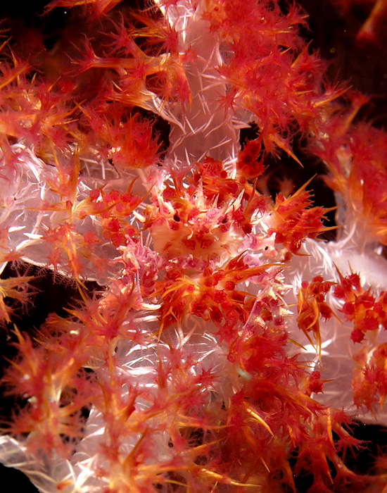 Camouflaged soft coral crab